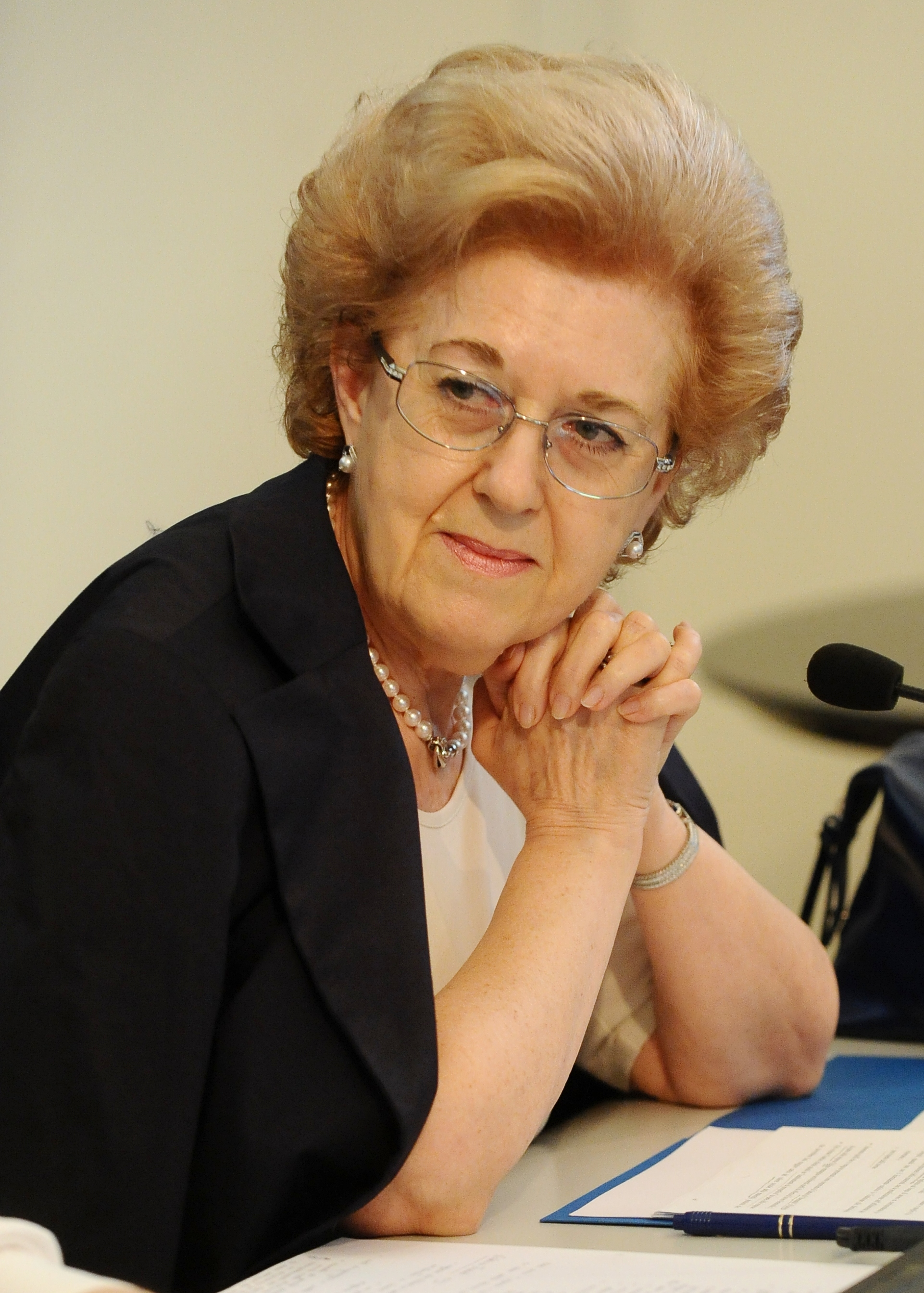 Anna Maria Tarantola, then director of the Bank of Italy, at the Festival of Economics 2012 in Trento.